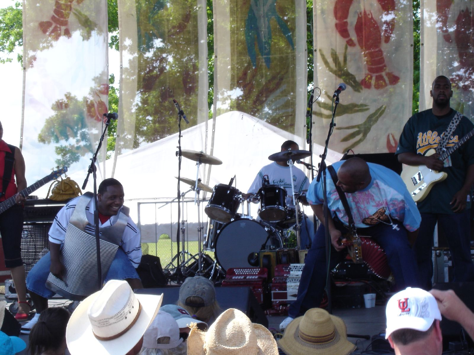 Keith Frank & Soileau Zydeco Family Band